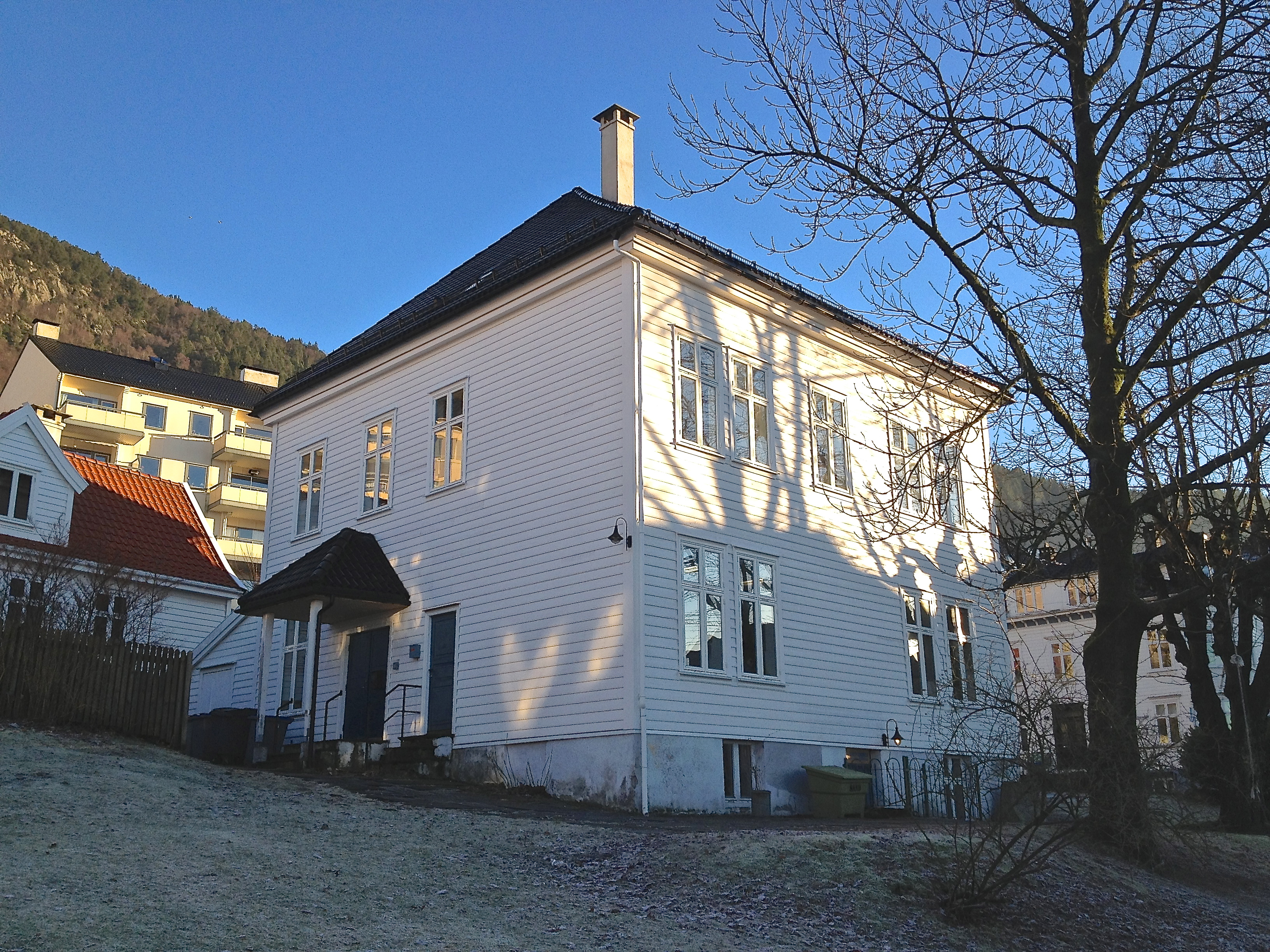 "Hus nummer 1" sett fra Sandviksveien.